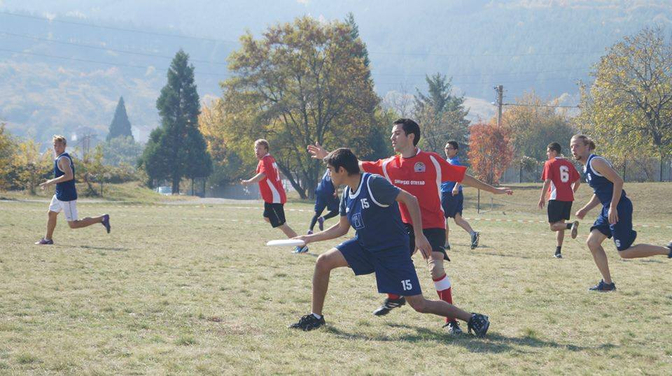 Ultimate defense force